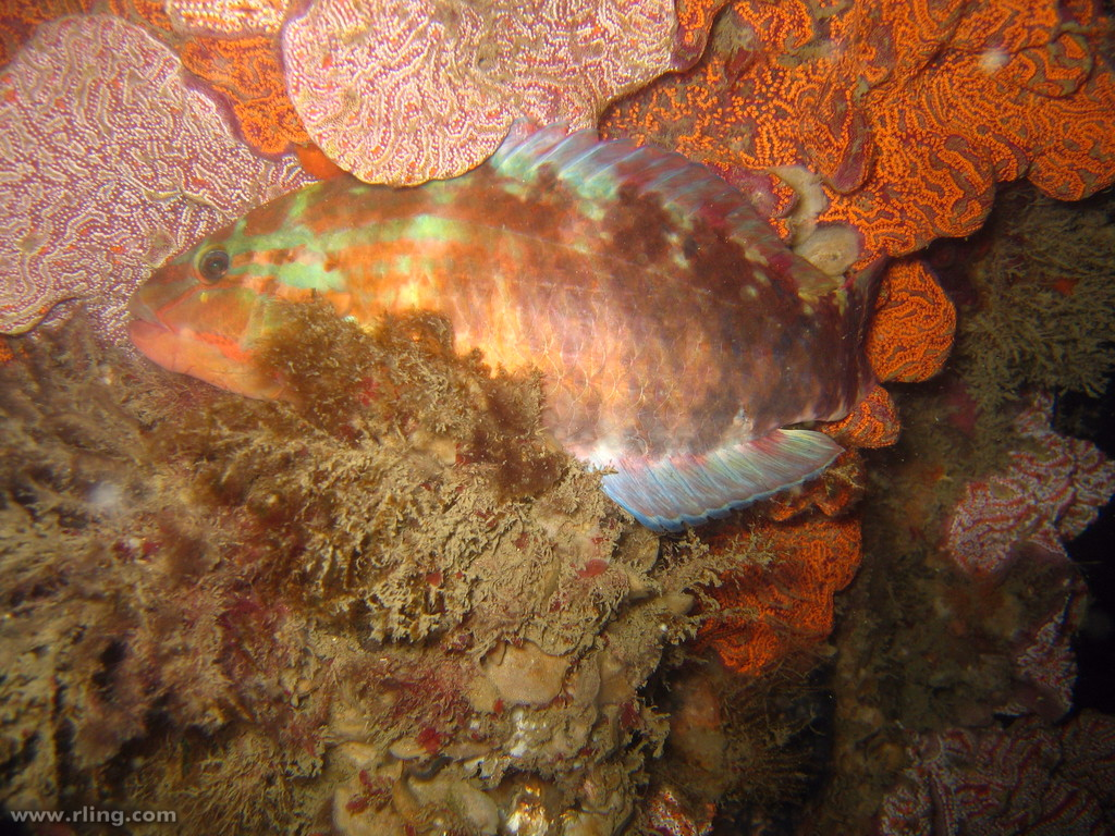 Guenther's Wrasse (Pseudolabrus guentheri) sleeps among ascidians (Ascidiacea) on a wharf pylon.. Clifton Gardens, Mosman, NSW